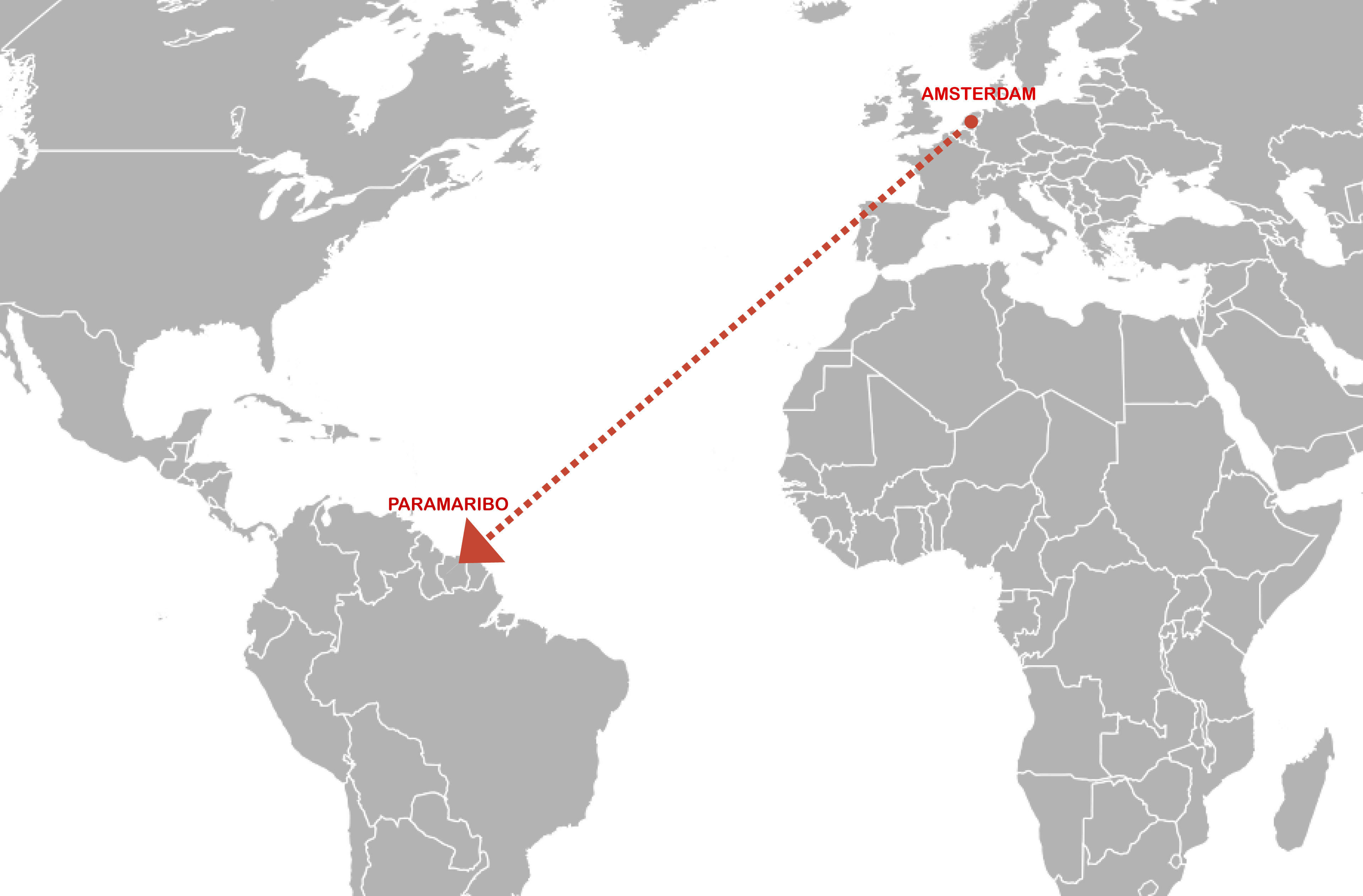 Route of flight Surinam Airways 764 crashed June, 7th 1989.